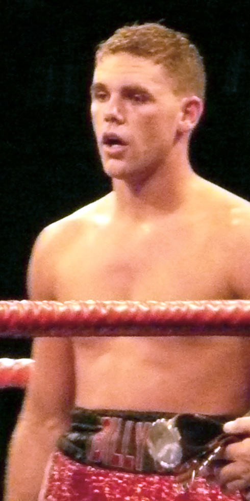 Billy Joe Saunders at Wembley Arena, following his unanimous decision victory over Gary Boulden.